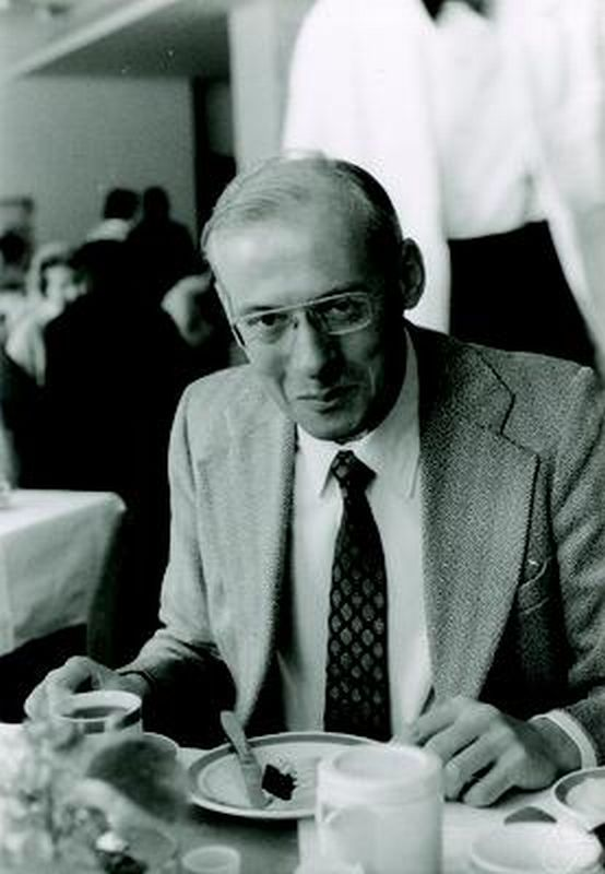 Karl Nickel, Halle 1974